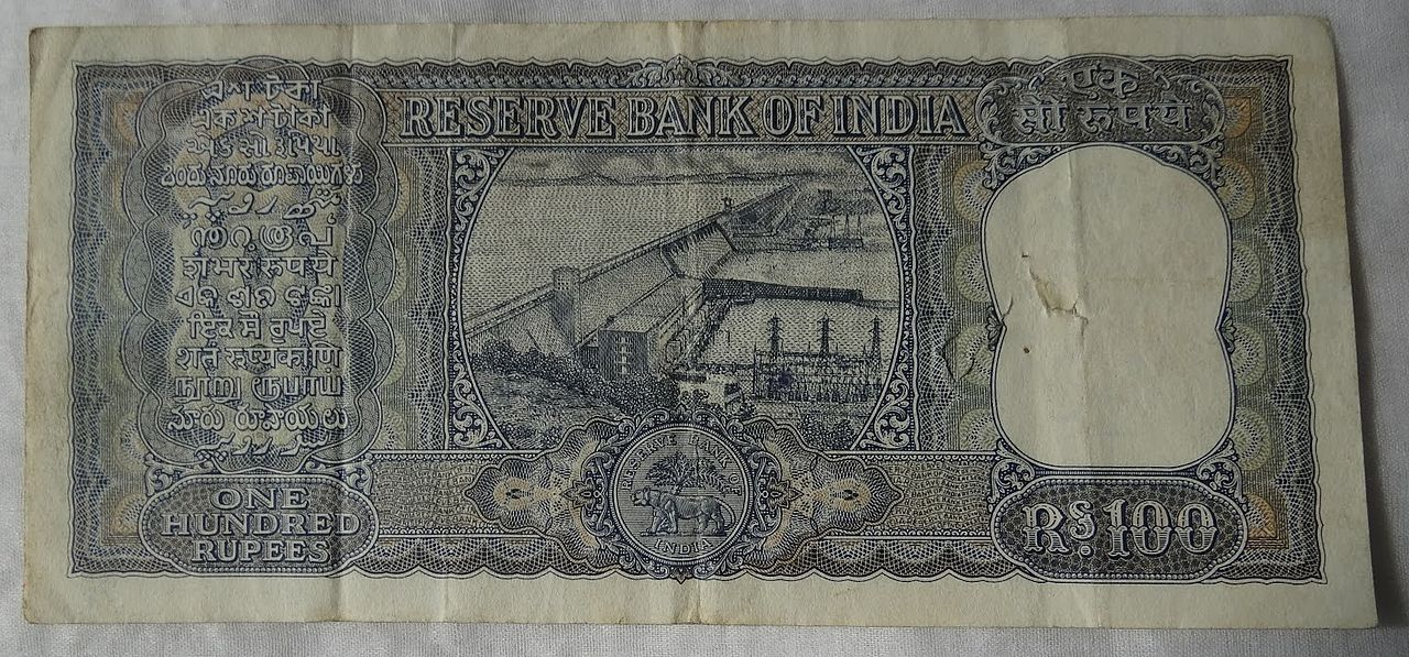 note containing photo pf hirakud dam